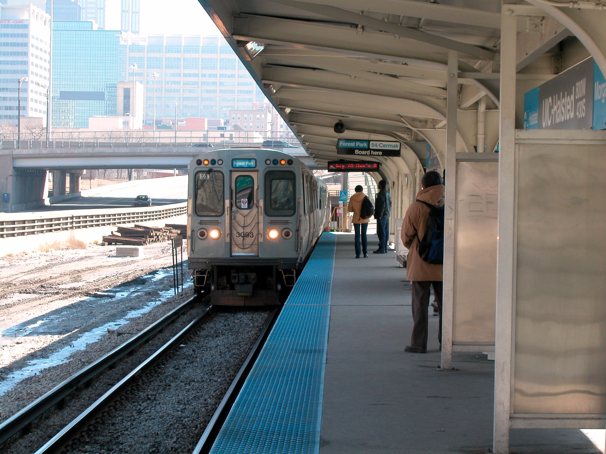 20030314 51 CTA Blue Line L @ U of I Halsted